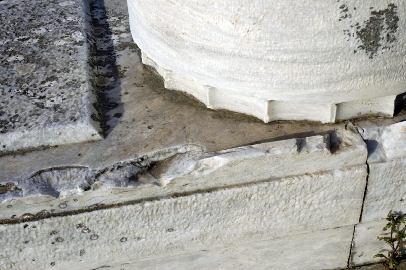 Unfinished fluting and carving on the 5th BC temple.J. M. Harrington, personal digital image